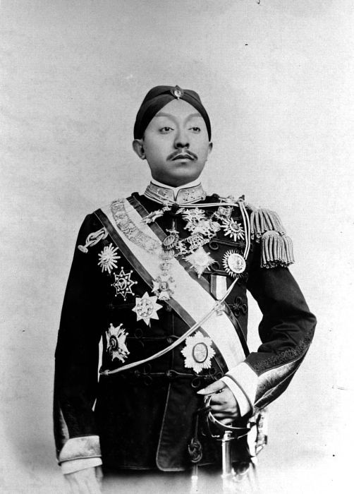 Negative. Portait of the 10th Susuhunan of Surakarta